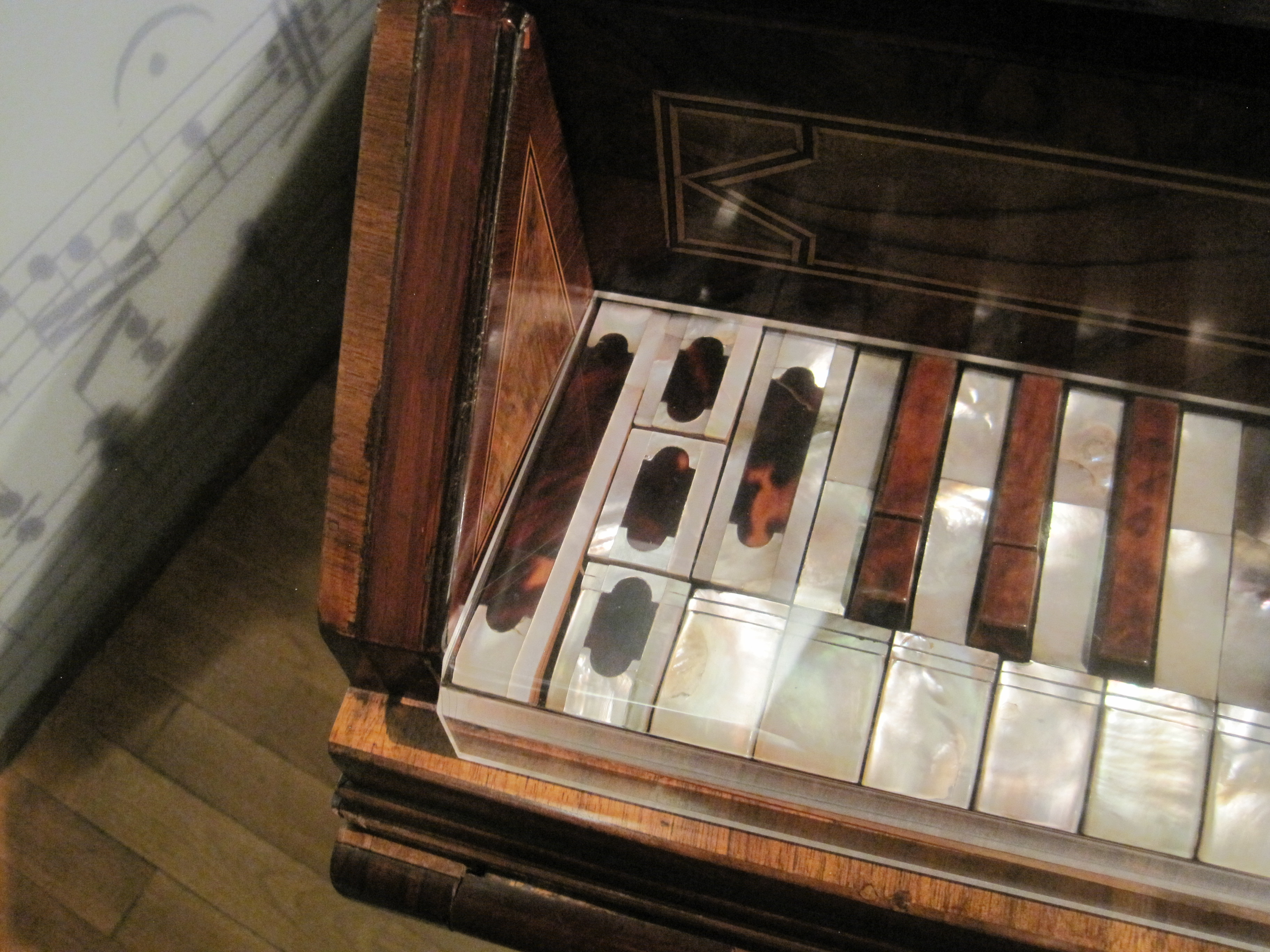 The so-called "Viennese Bass Octave", a method used on Viennese and nearby harpsichords for compressing the space needed for the bass notes. See English Wikipedia, "Short octave", for explanation. Detail of a small single-manual harpsichord kept in the music collection of the Czech National Museum in Prague. The museum describes it as "anonymous, South Bohemia or Austria, cf. 1700"